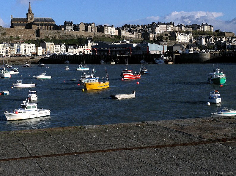 Harbourg, Granville, France